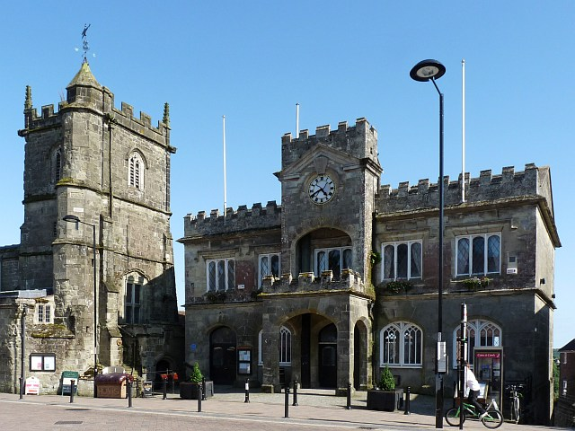 Shaftesbury Town Hall The blue plaque on the left of the Town Hall states 'Built on the market place in 1827 by Earl Grosvenor who owned most of Shaftesbury, it replaced the open-arched New Guild Hall. Clock tower added in 1879'. A Hovis loaf charity collection box is in front of the Town Hall. Gold Hill , made famous by a Hovis television advertisement, is behind the Town Hall. The tower of St Peter's Church is on the left.